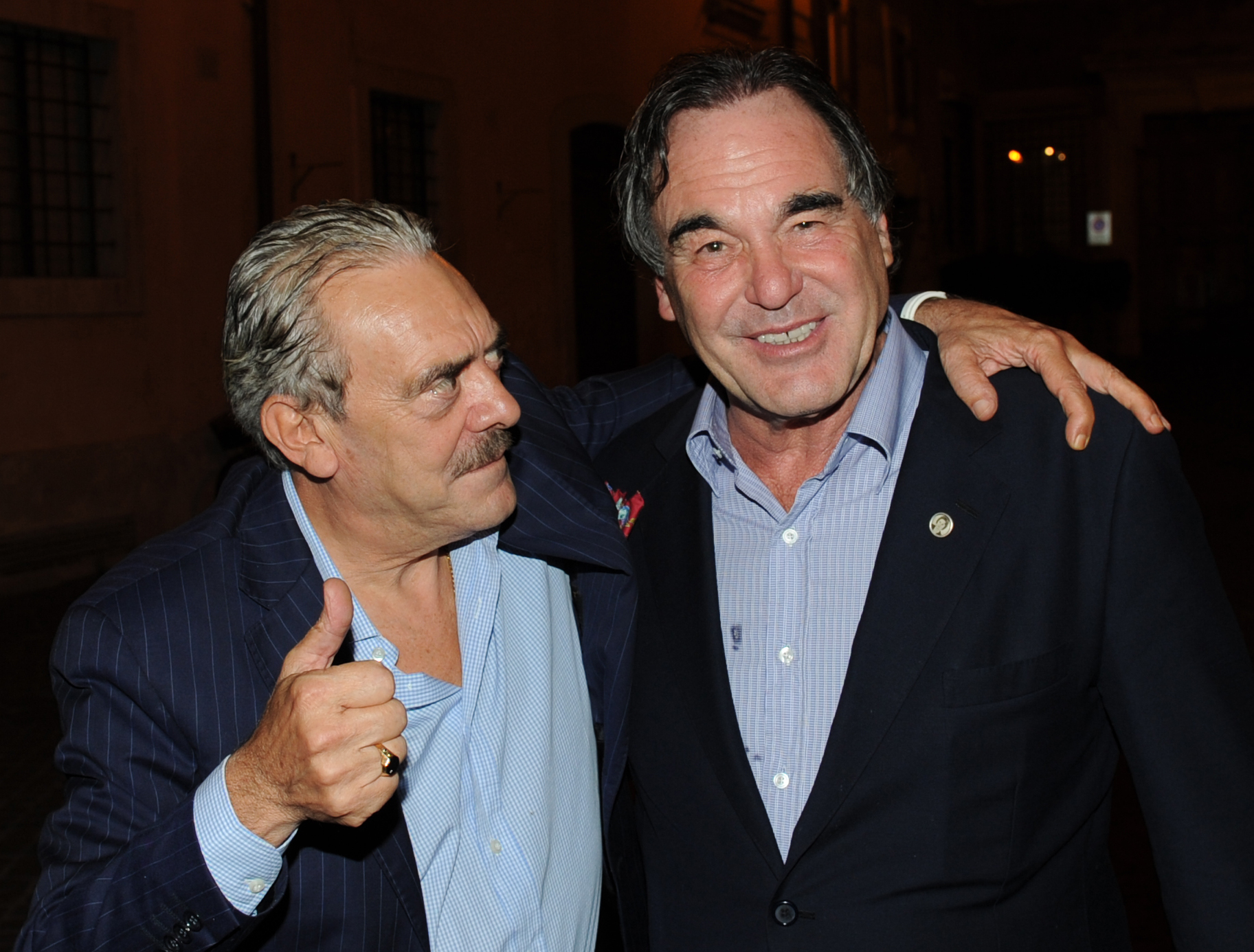 Oliver Stone asks to be photographed with The King of Paparazzi Rino Barillari in "Piazza dé Ricci" exit of the restaurant "Pierluigi" in Rome